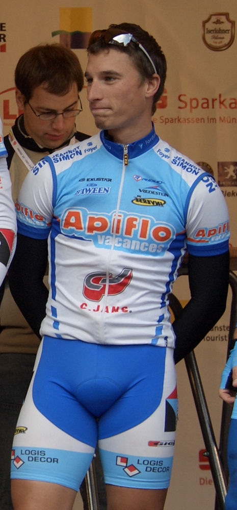 Cyrille Heymans